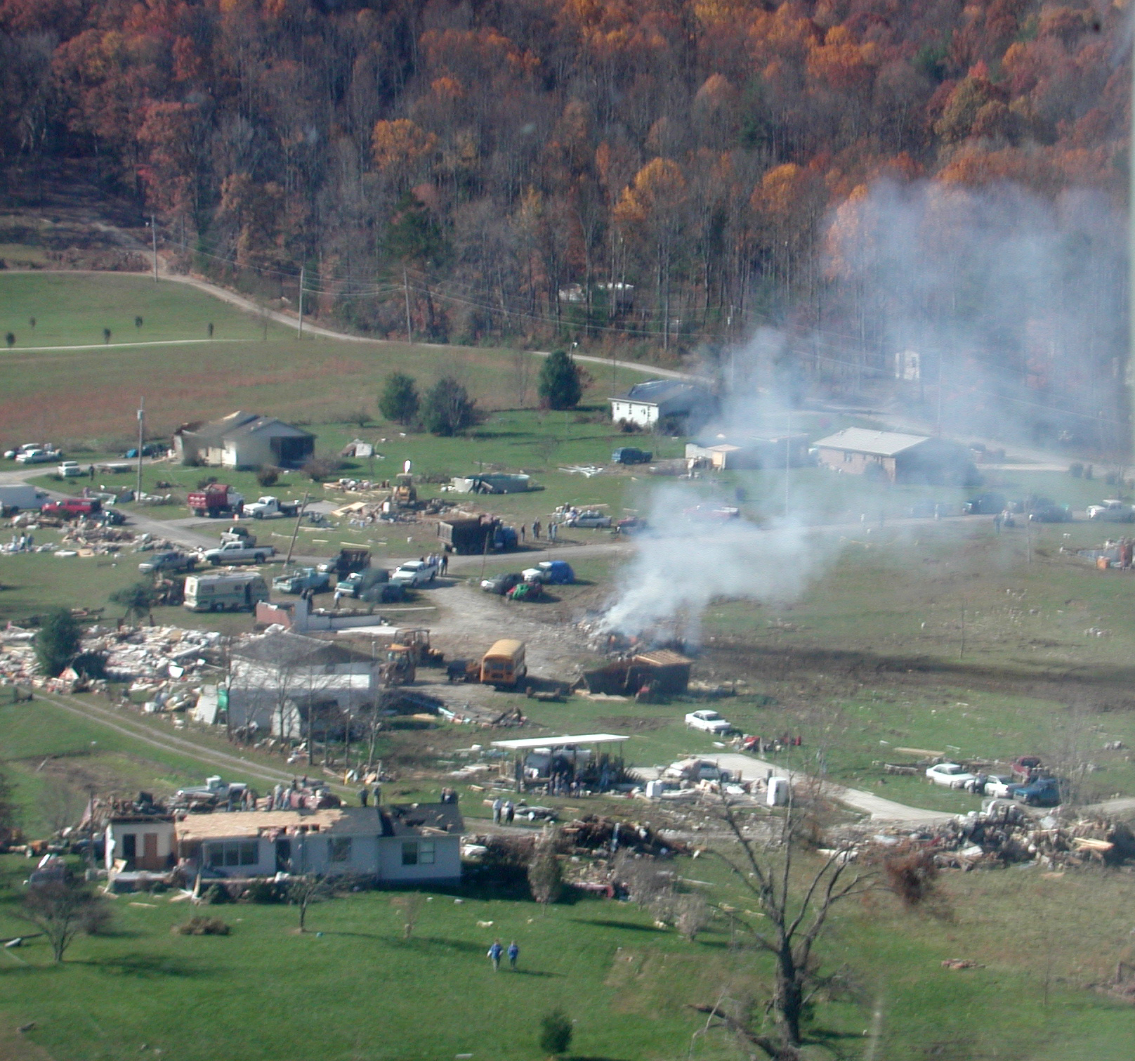 Carbon Hill, AL, November 14, 2002 -- Extensive damage occurred to the town of Carbon Hill when tornadoes struck land in Alabama. Photo by Lara Shane/FEMA News Photo